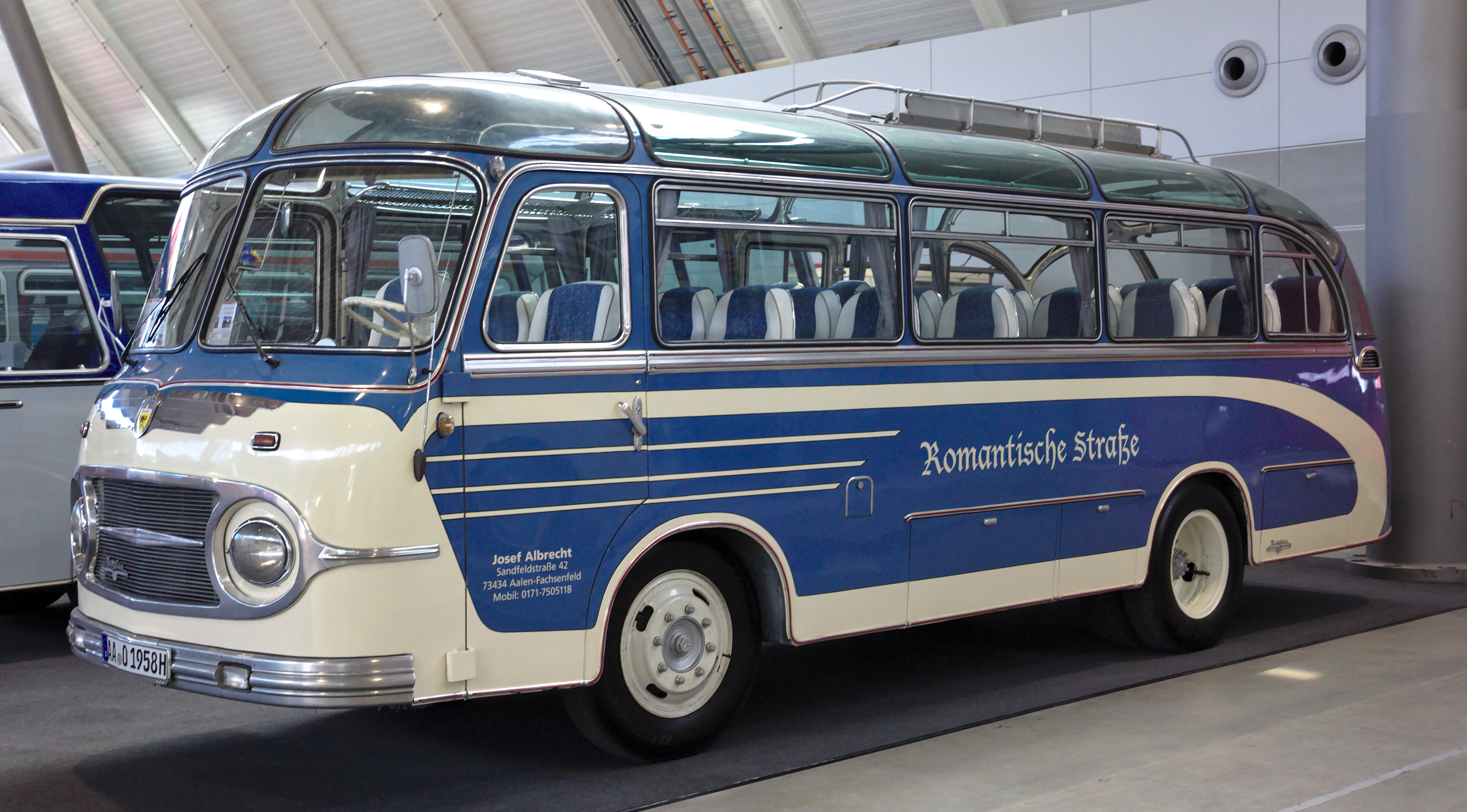 Auwärter-Neoplan NH6/7 at Retro Classics 2019